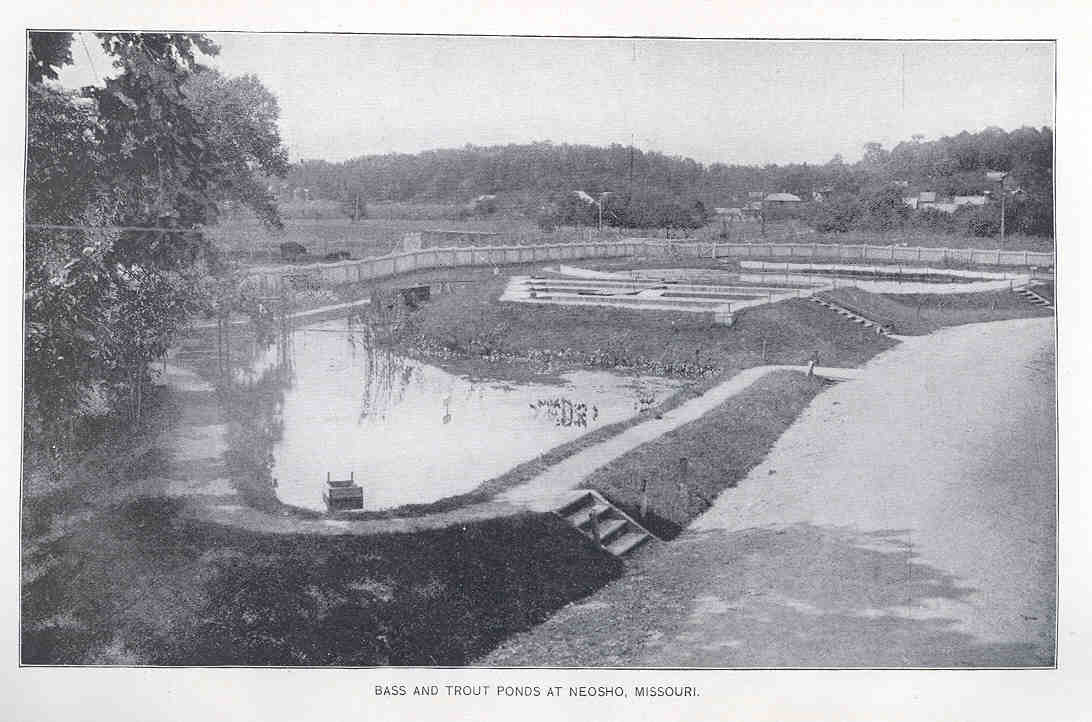 Bass and Trout Ponds at Neosho, Missouri Subject: Fish ponds Geographic Subject: United States--Missouri--Neosho Tag: Hatcheries